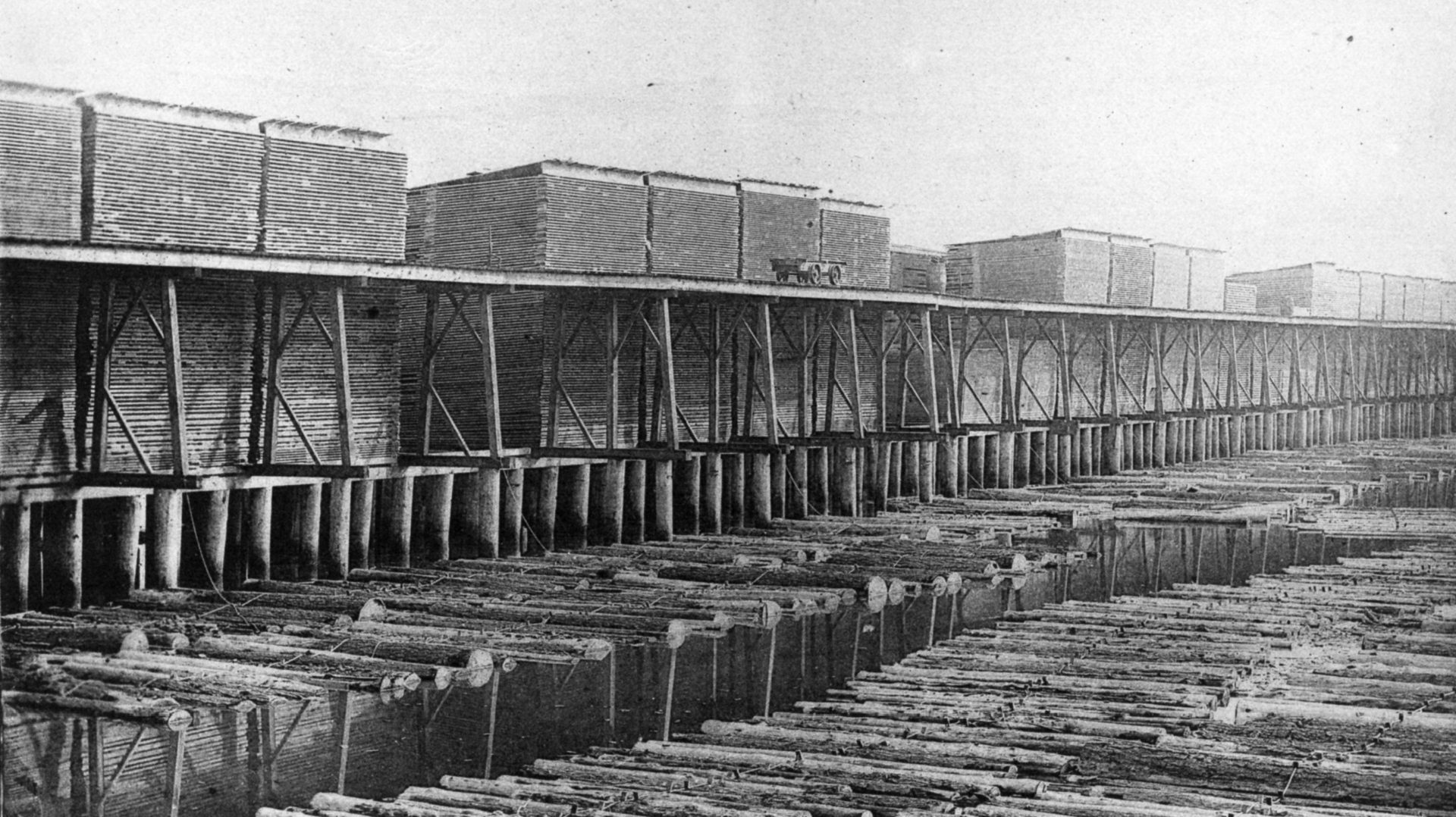 West side Saginaw, Old Saginaw City, south of Court Street Bridge